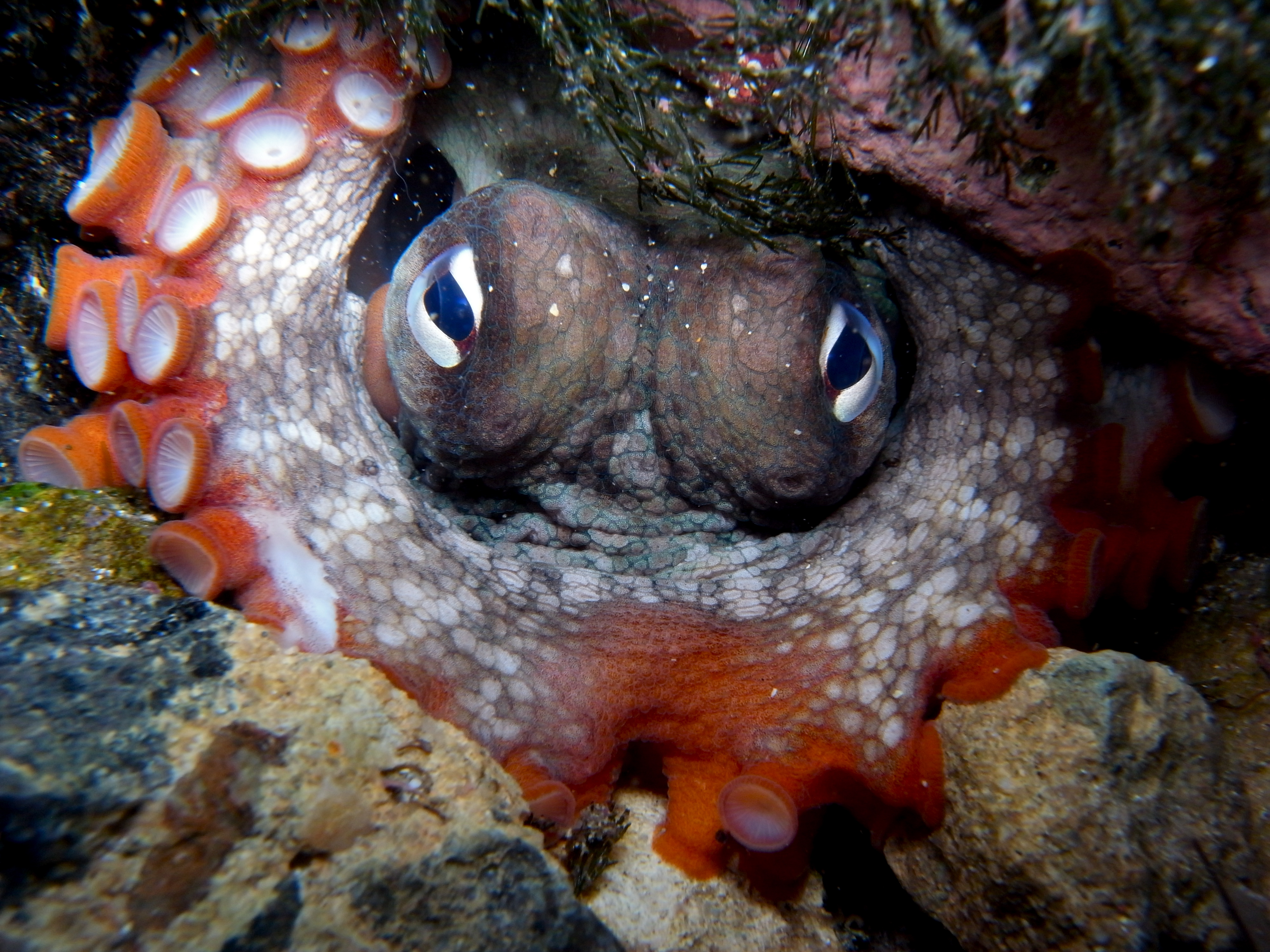 Octopus tetricus is hiding under a rock in Clovelly Pool, Sydney, NSW, Australia